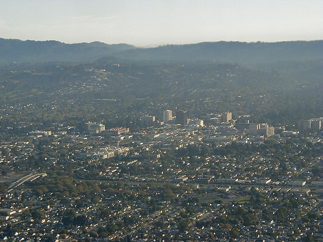 Photograph made by Michael C. Berch (User:MCB) on 2005-08-07